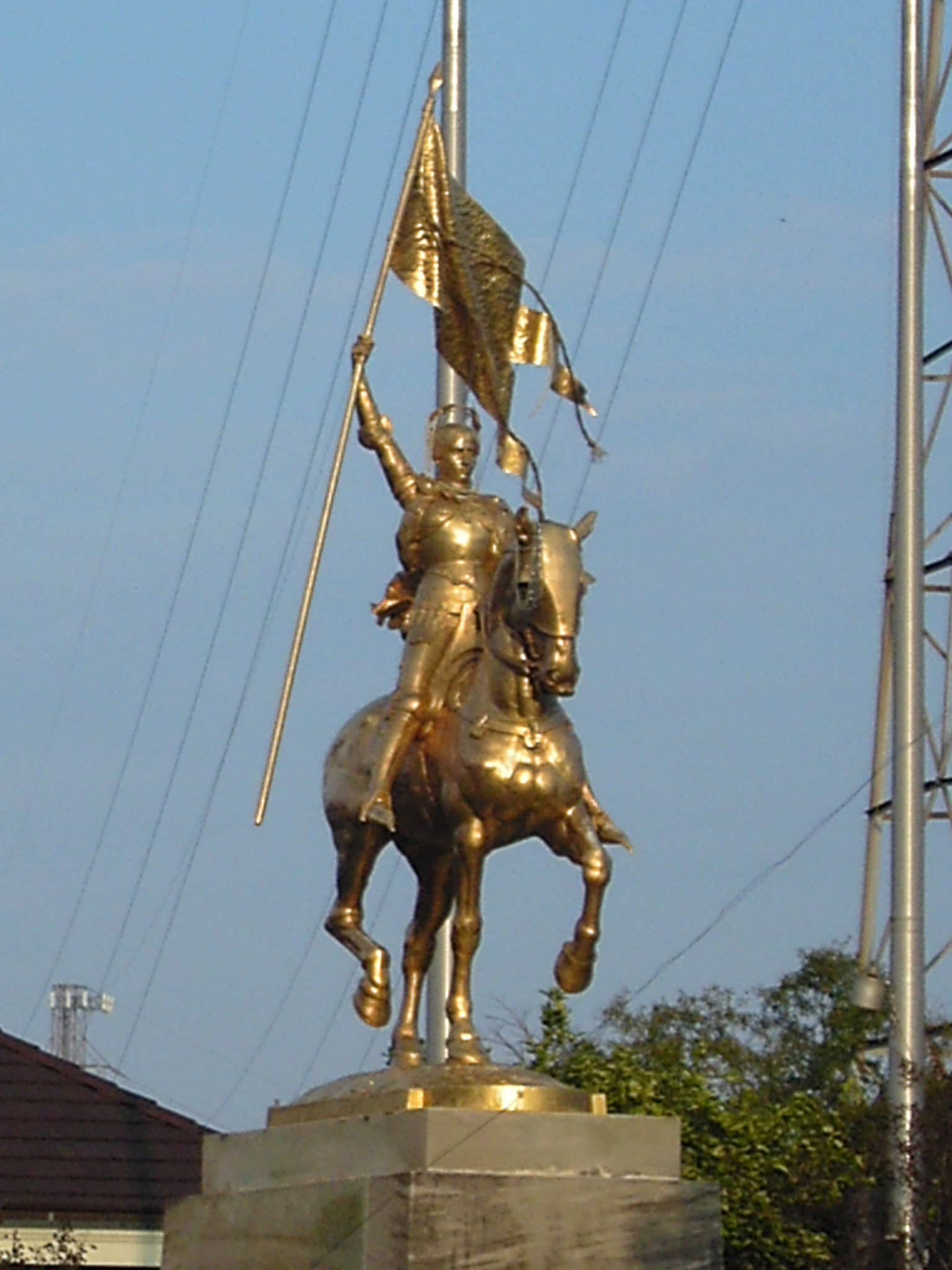 St. Joan of Arc - Decatur St.